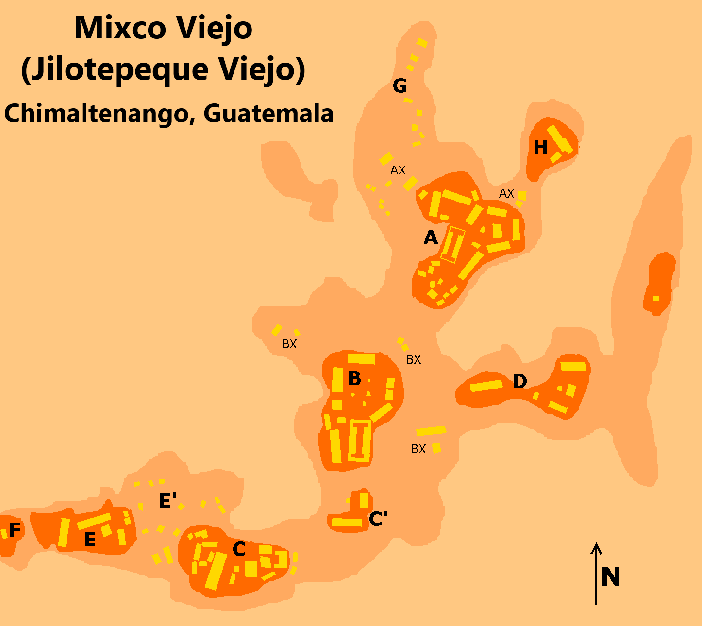 Map of the principal architectural groups of the Chajoma Kaqchikel capital at Mixco Viejo (Jilotepeque Viejo). Located in Chimaltenango Department, Guatemala.